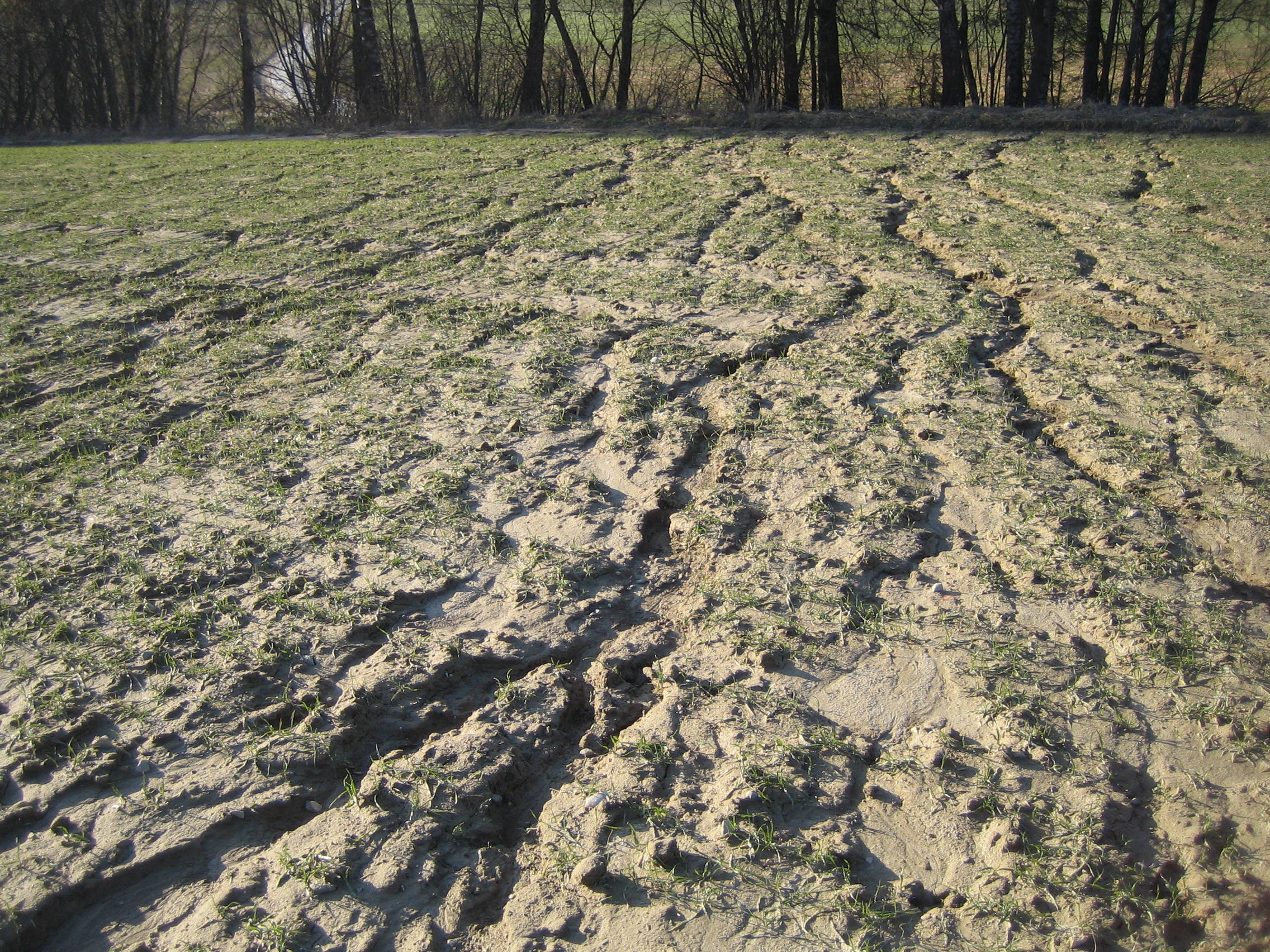 Networks of erosion grooves and channels, canton of Bern, Switzerland